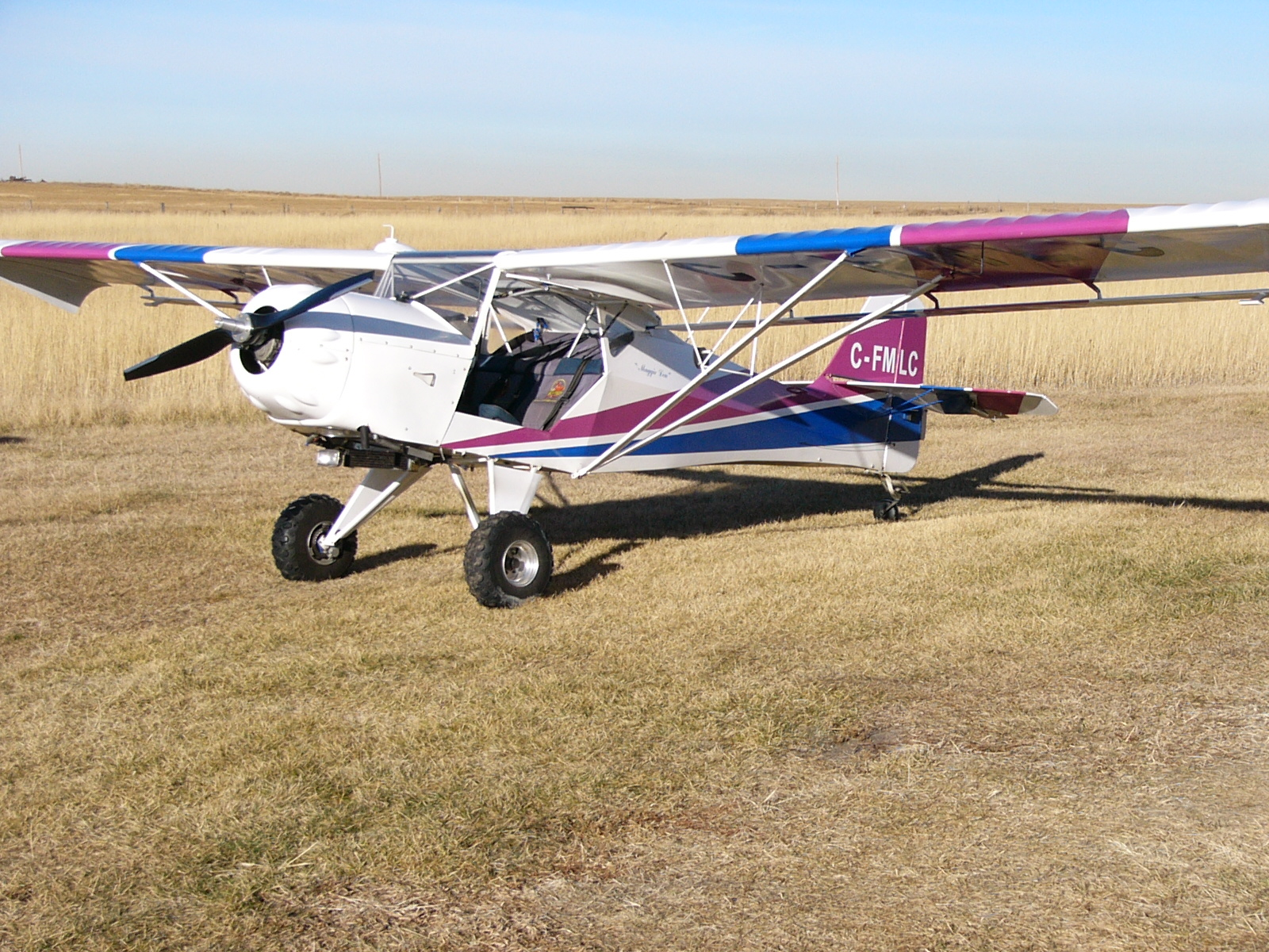 A Denney Kitfox Model 2 photographed at Chestermere-Kirkby aerodrome.